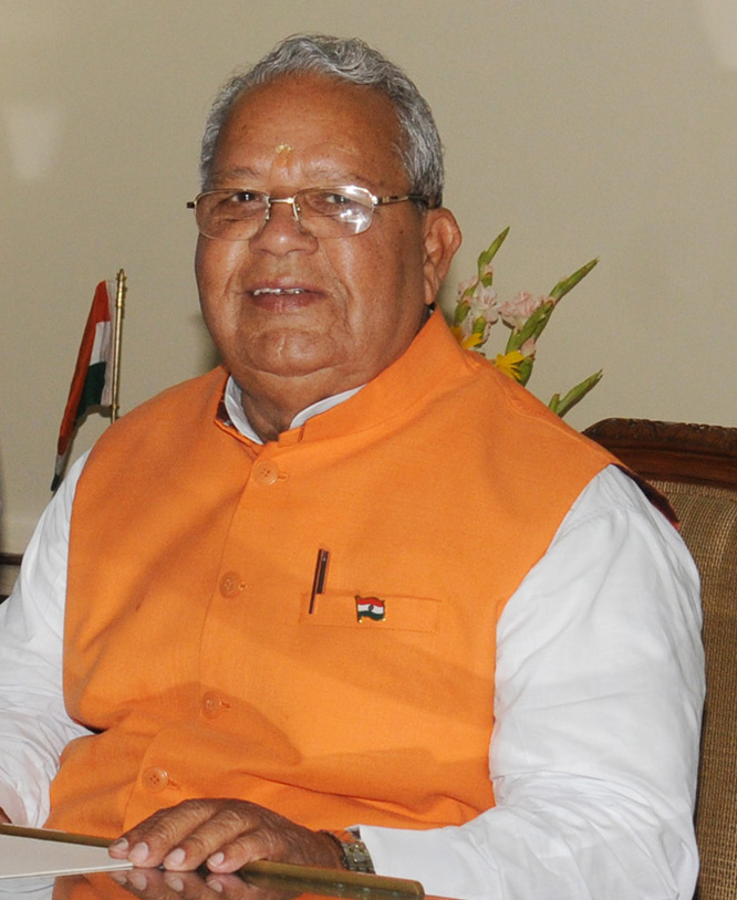 Shri Kalraj Mishra taking charge as the Union Minister for Micro, Small and Medium Enterprises, in New Delhi on May 28, 2014. P D Photo by Mukesh Kumar